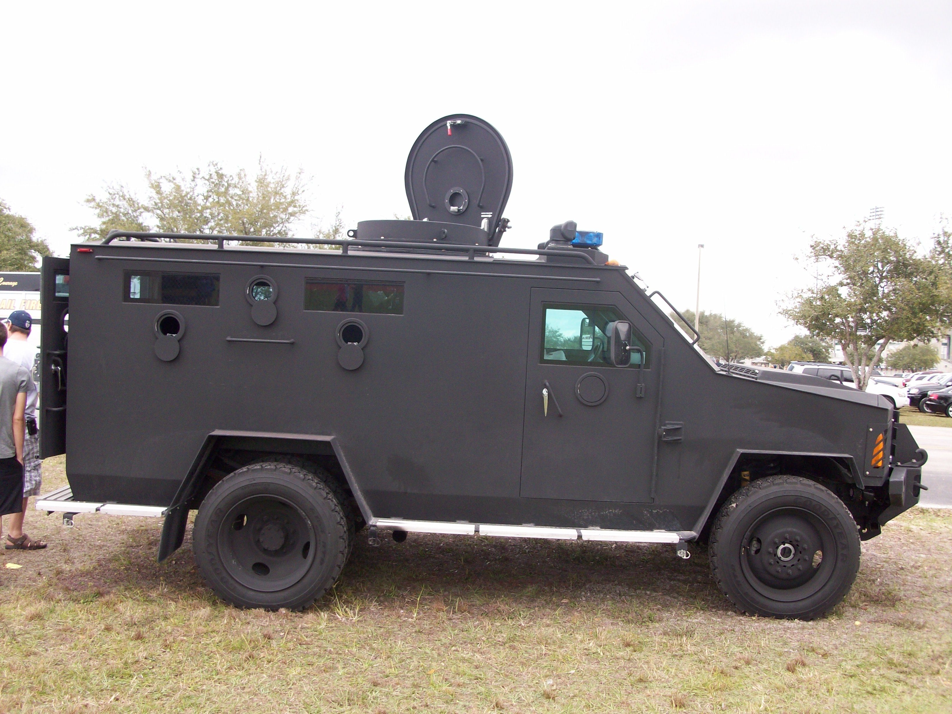 Lenco BearCat tactical vehicle used by the Lee County Sheriff's Office (Florida) SWAT team